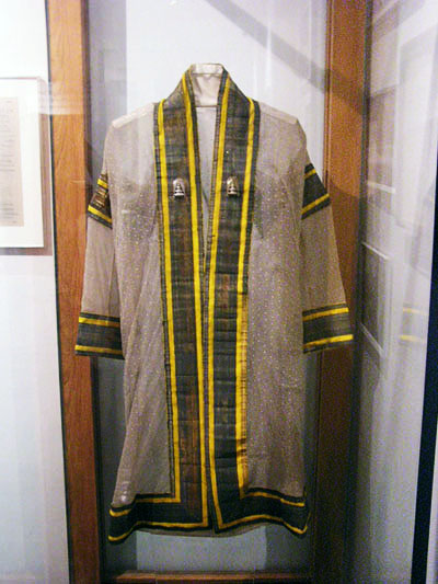 Rama VII's royal academic gown